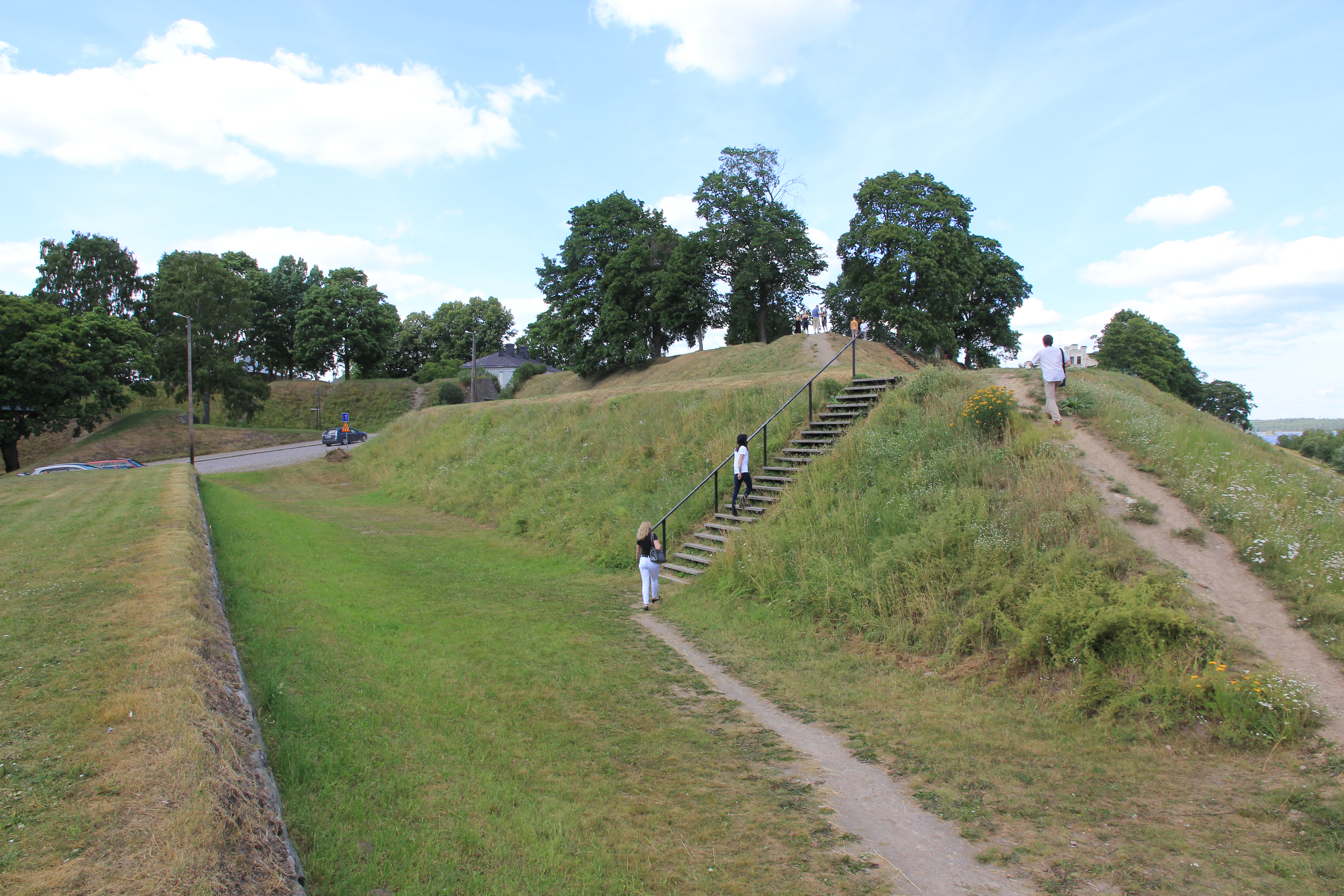 View up from the lowest level wall on the south east corner of the Lappeenranta fortress.